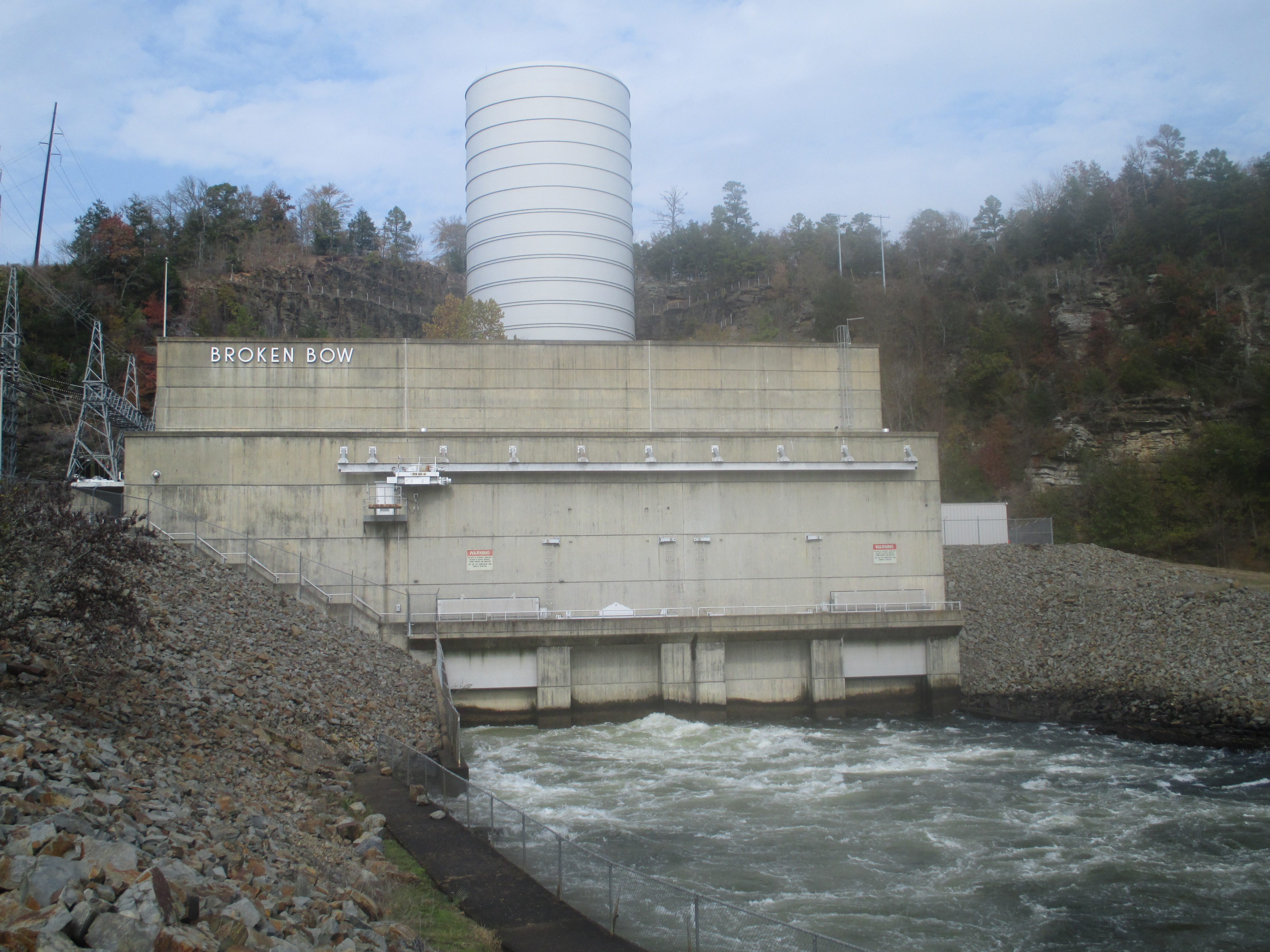 I took photo with Canon camera of Broken Bow, OK, Reservoir.